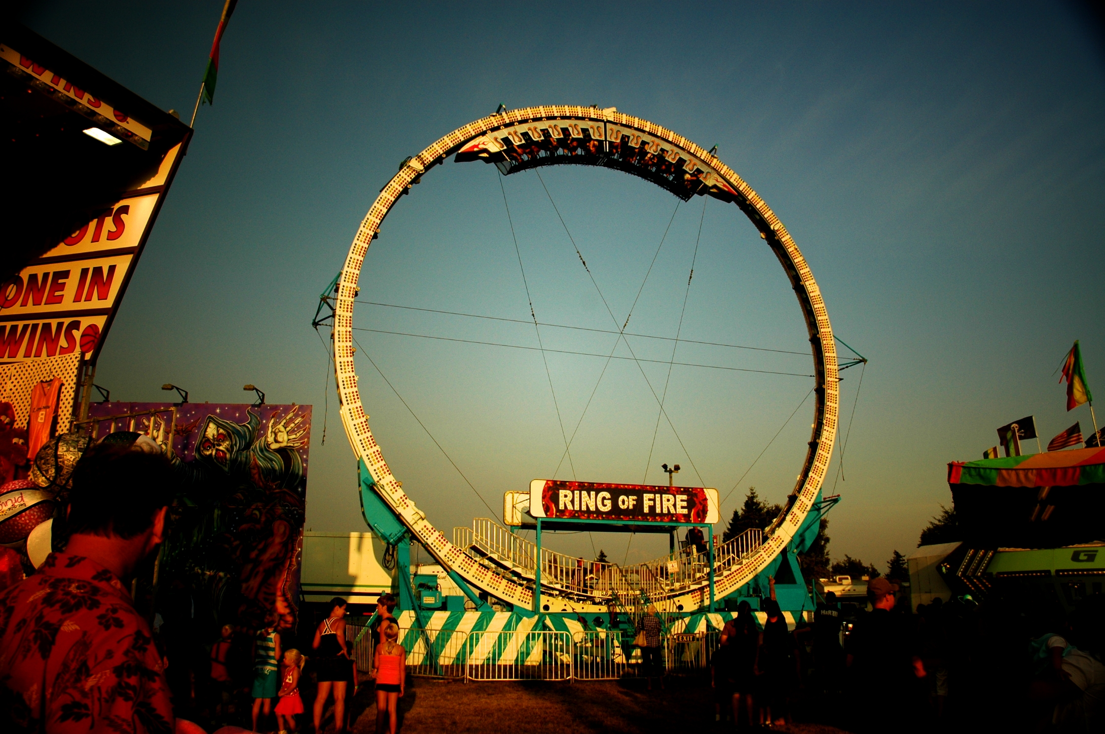 Nasty nasty ride. A ton of fun but often when they let the riders off the carnys take a garden hose and quick spray off most of the vomit from the seats before letting the next group of people on.